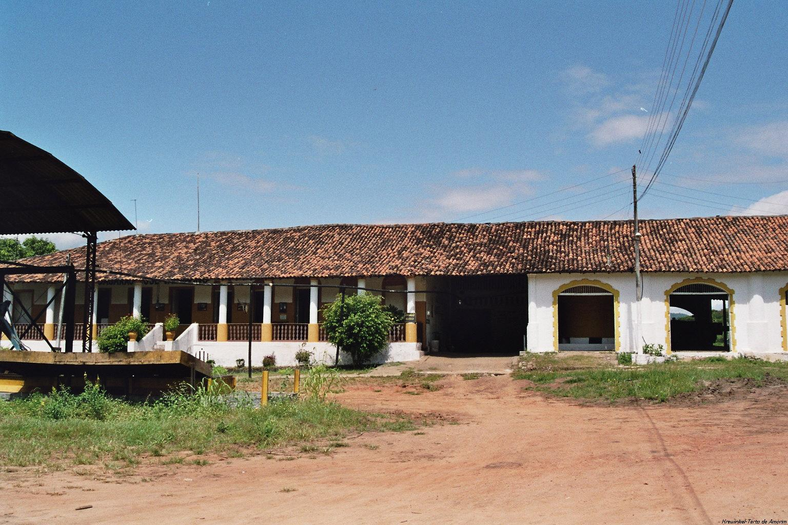 Museum Senzala Negro Liberto